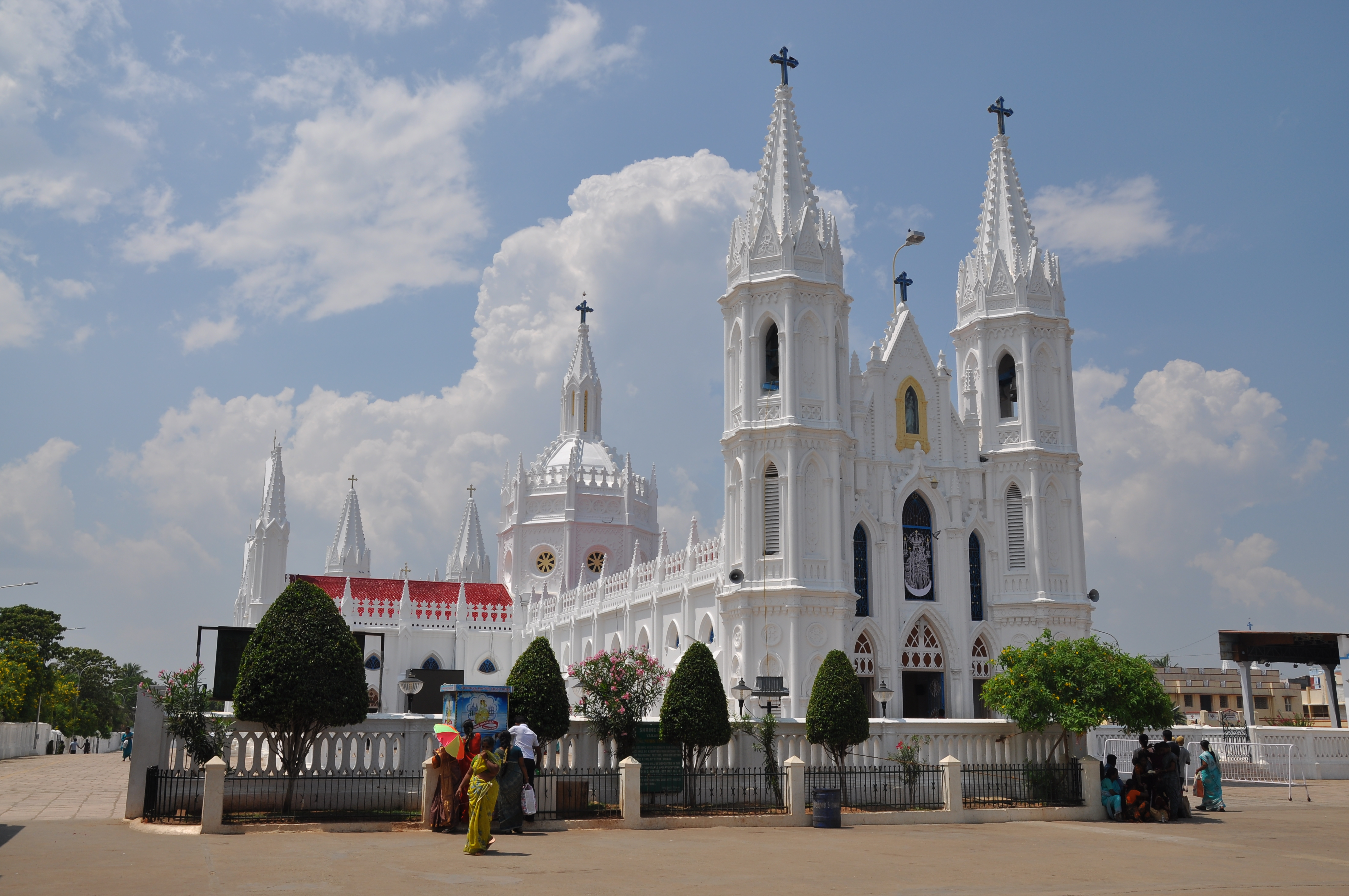 Velan kanni